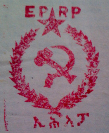 Logo of the Ethiopian People's Revolutionary Party(EPRP